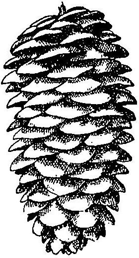 Cone of picea koraiensis